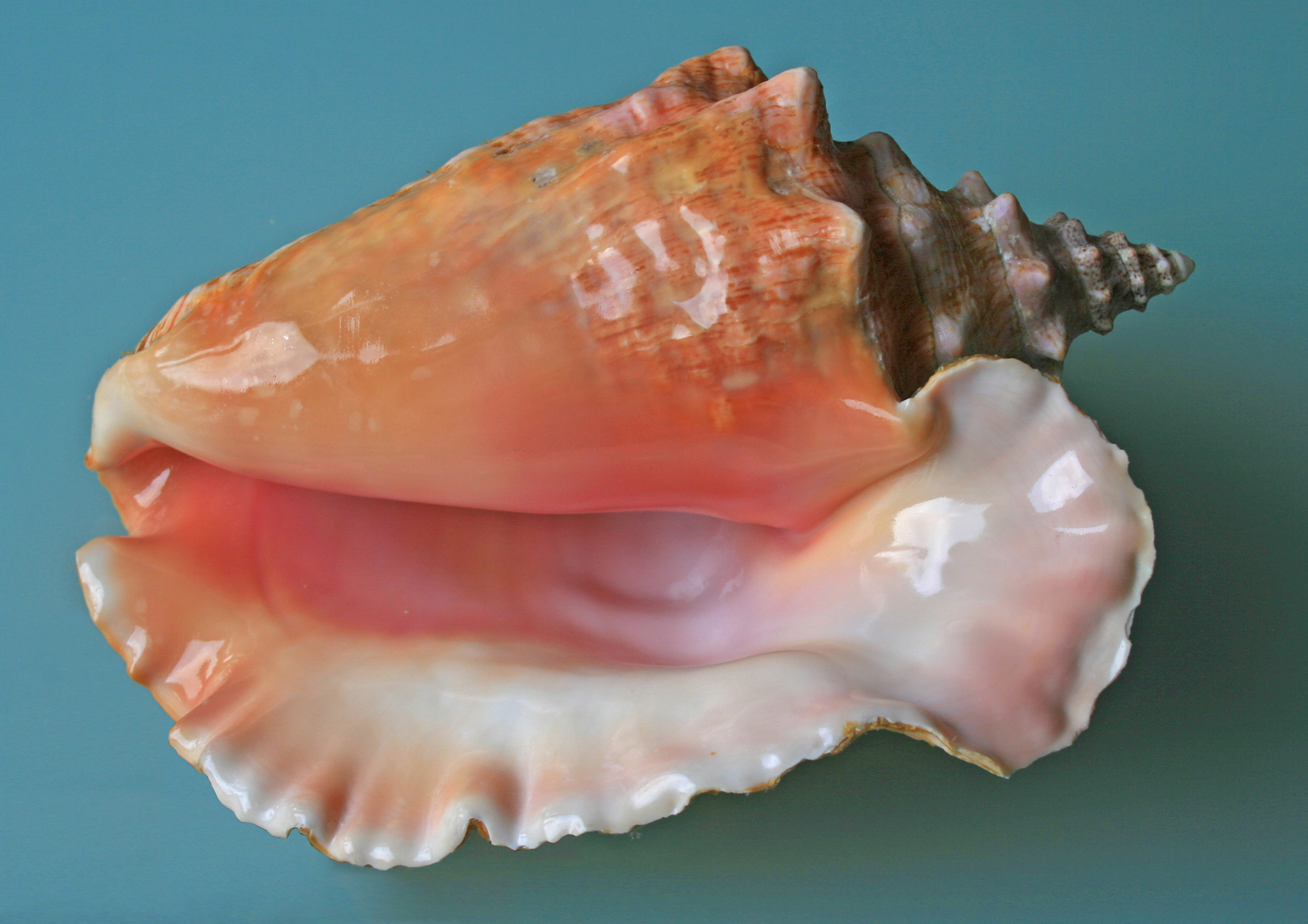 Strombus gigas = Eustrombus gigas